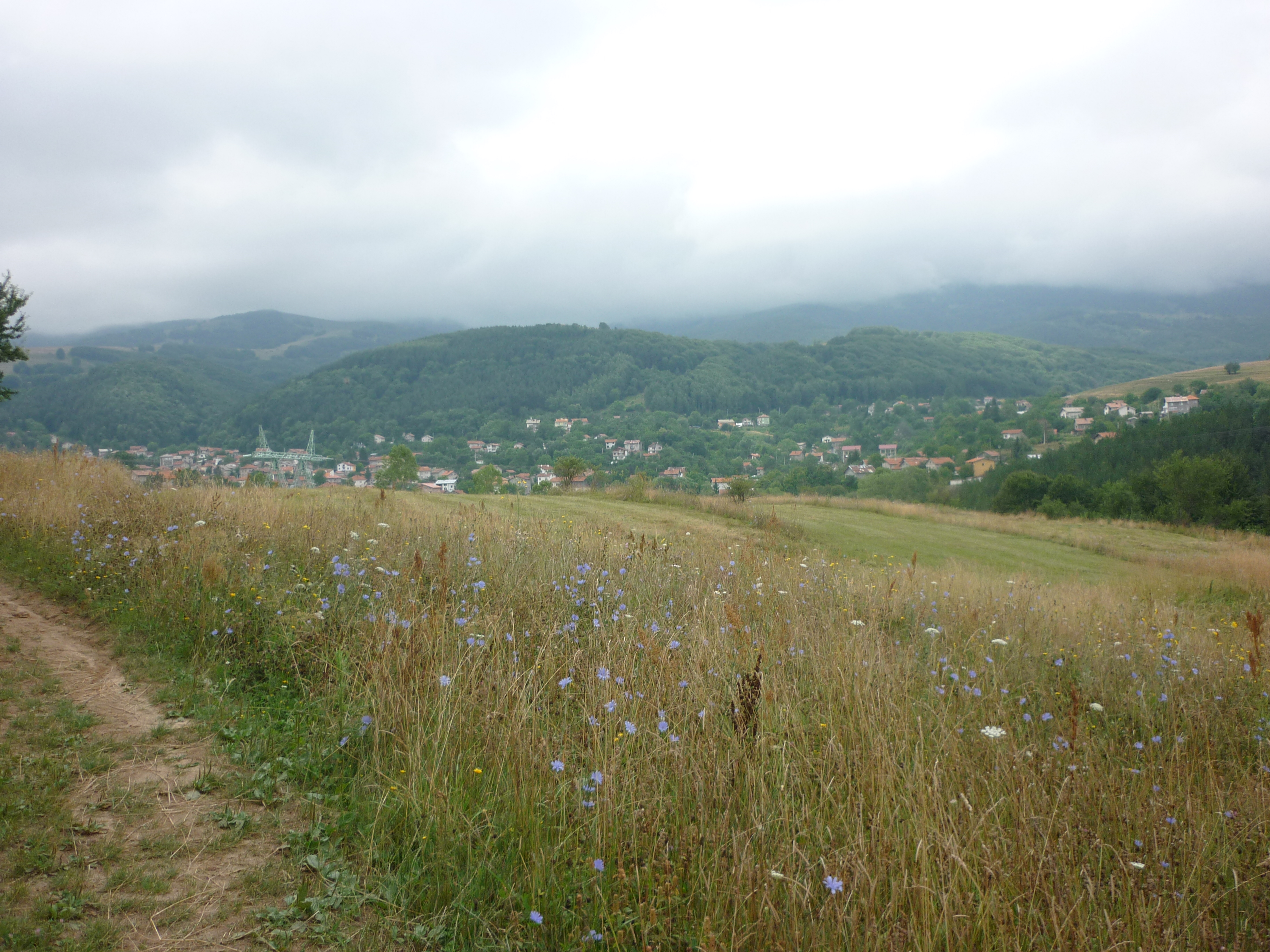 Village-Jeleznica-Bulgaria